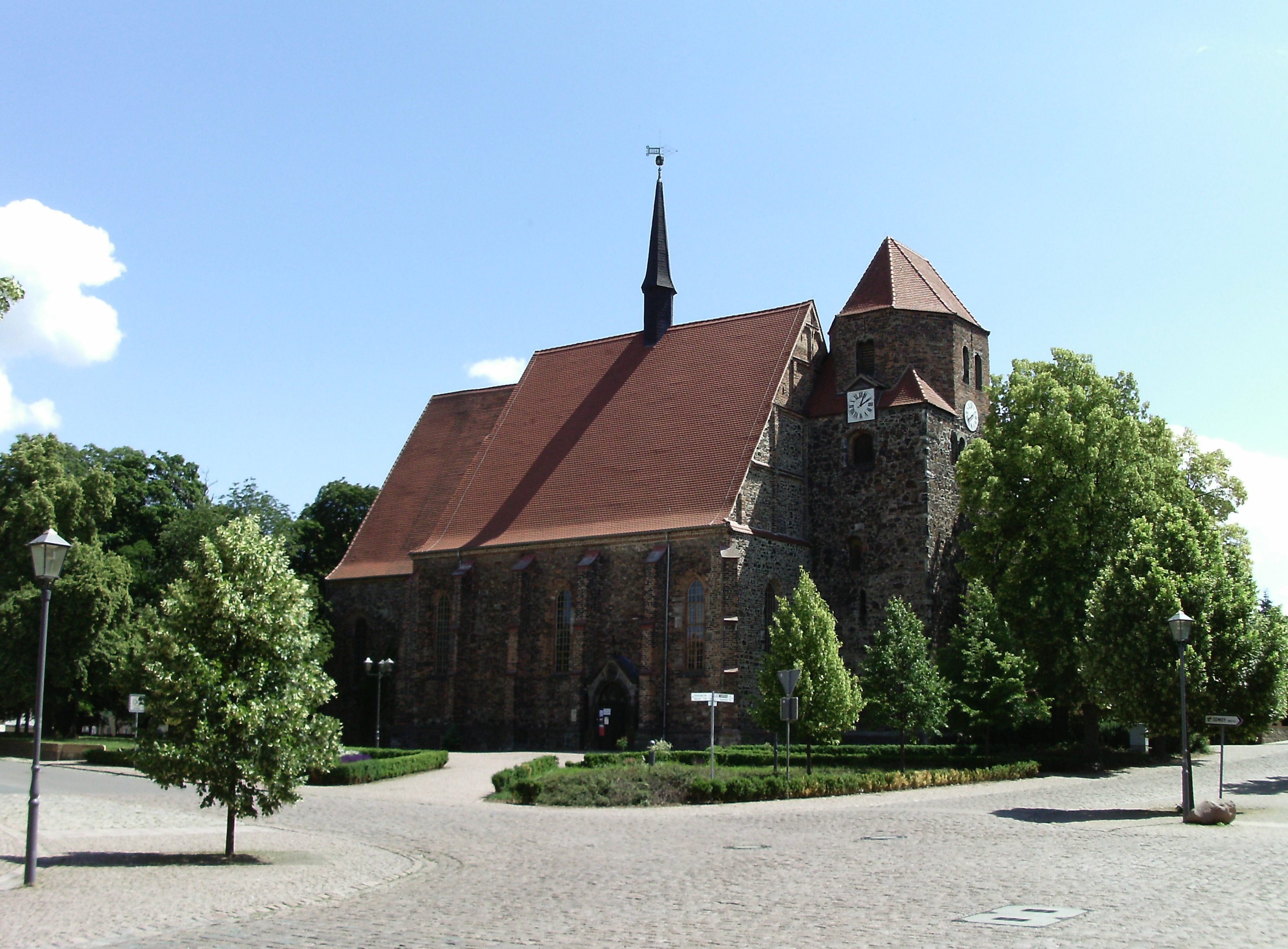 St. James and St. Clement Church in Brehna (Sandersdorf-Brehna, Anhalt-Bitterfeld district, Saxony-Anhalt)